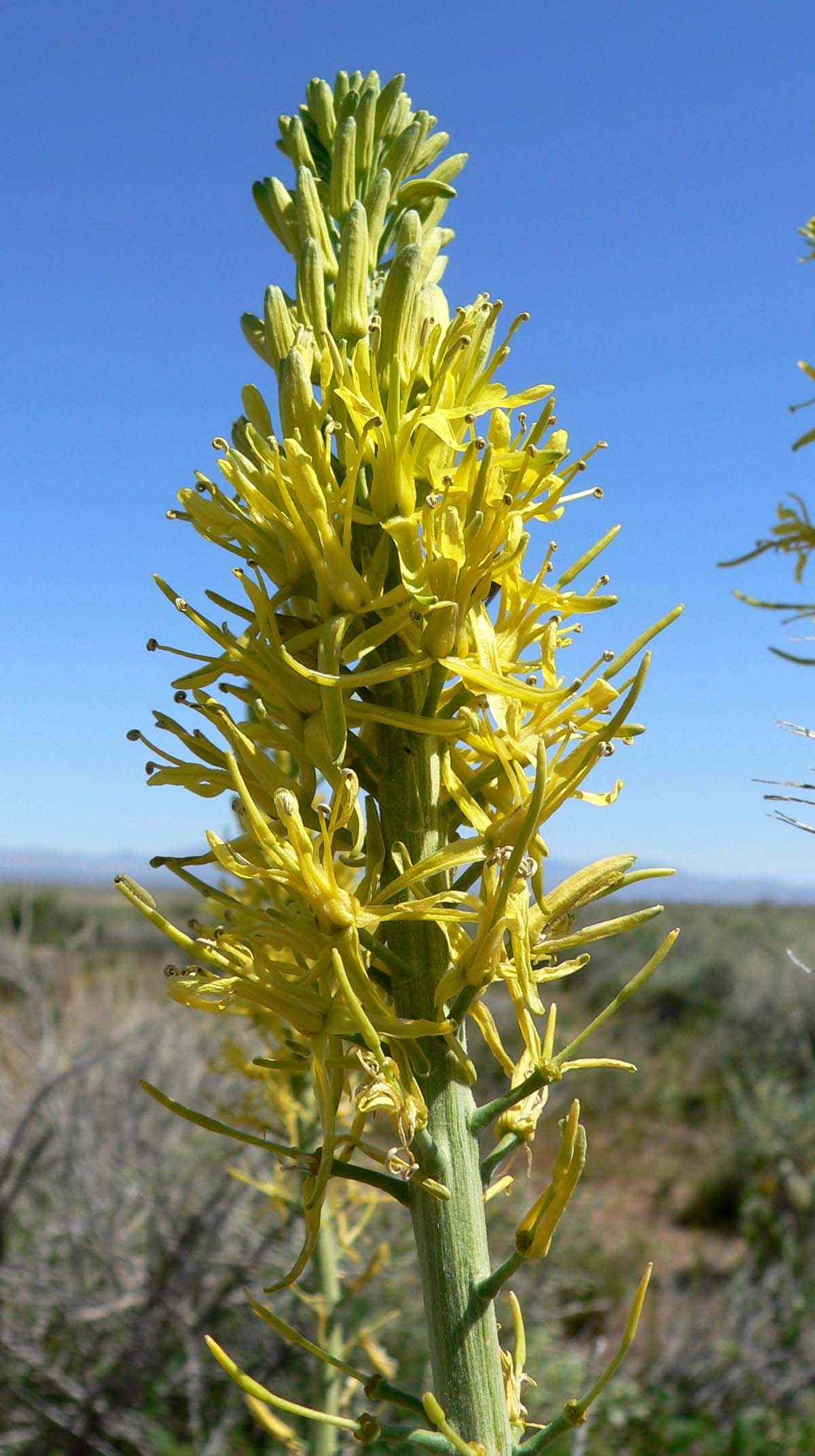 Photo of Stanleya pinnata (prince's plume) on California-Nevada border south of Pahrump